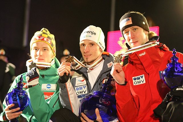 The podium of FIS Ski-Flying World Championships 2012: Rune Velta, Robert Kranjec, Martin Koch.